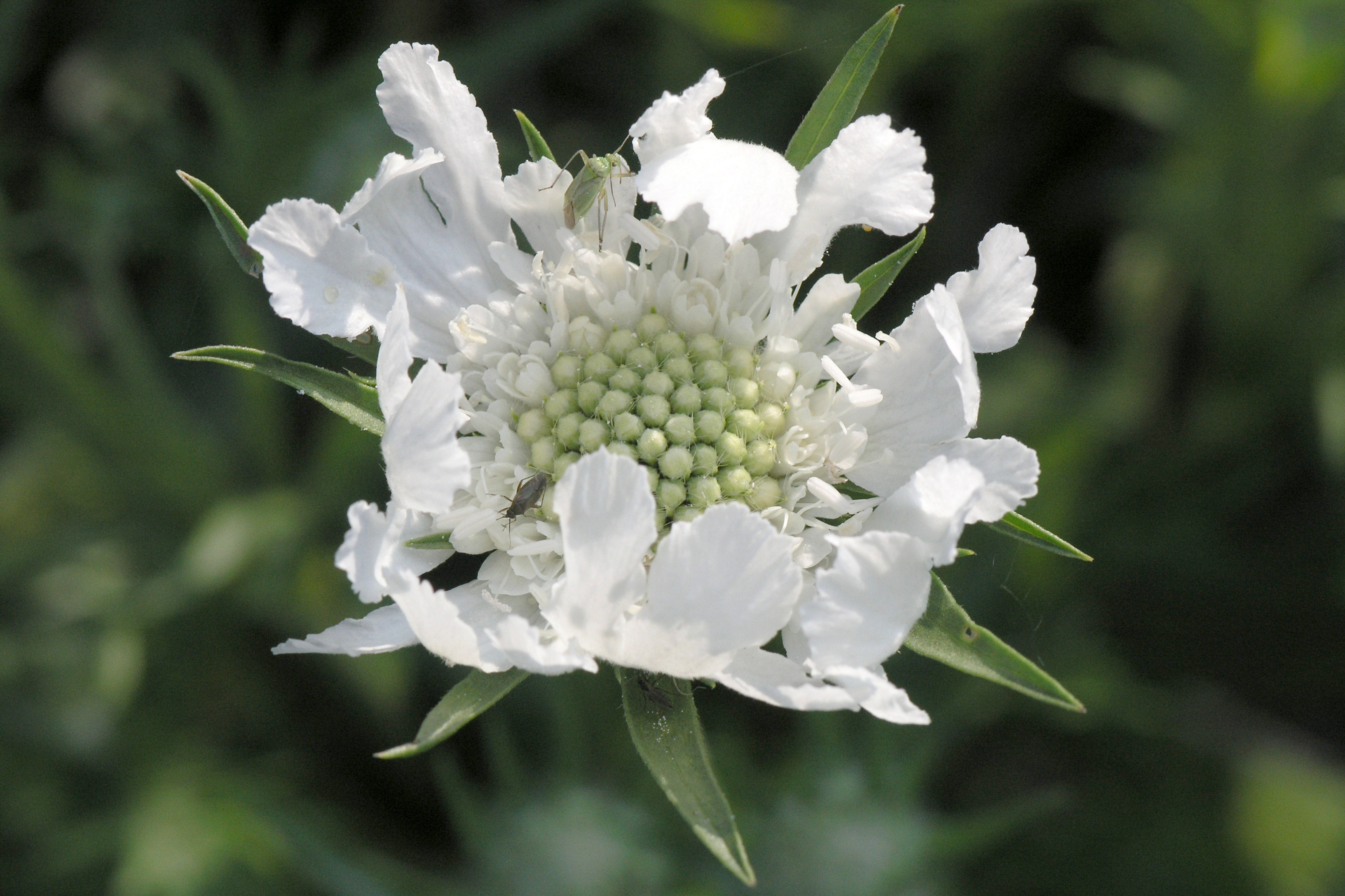 Scabiosa caucasica 'Alba' own work 27 June 2006 Deps